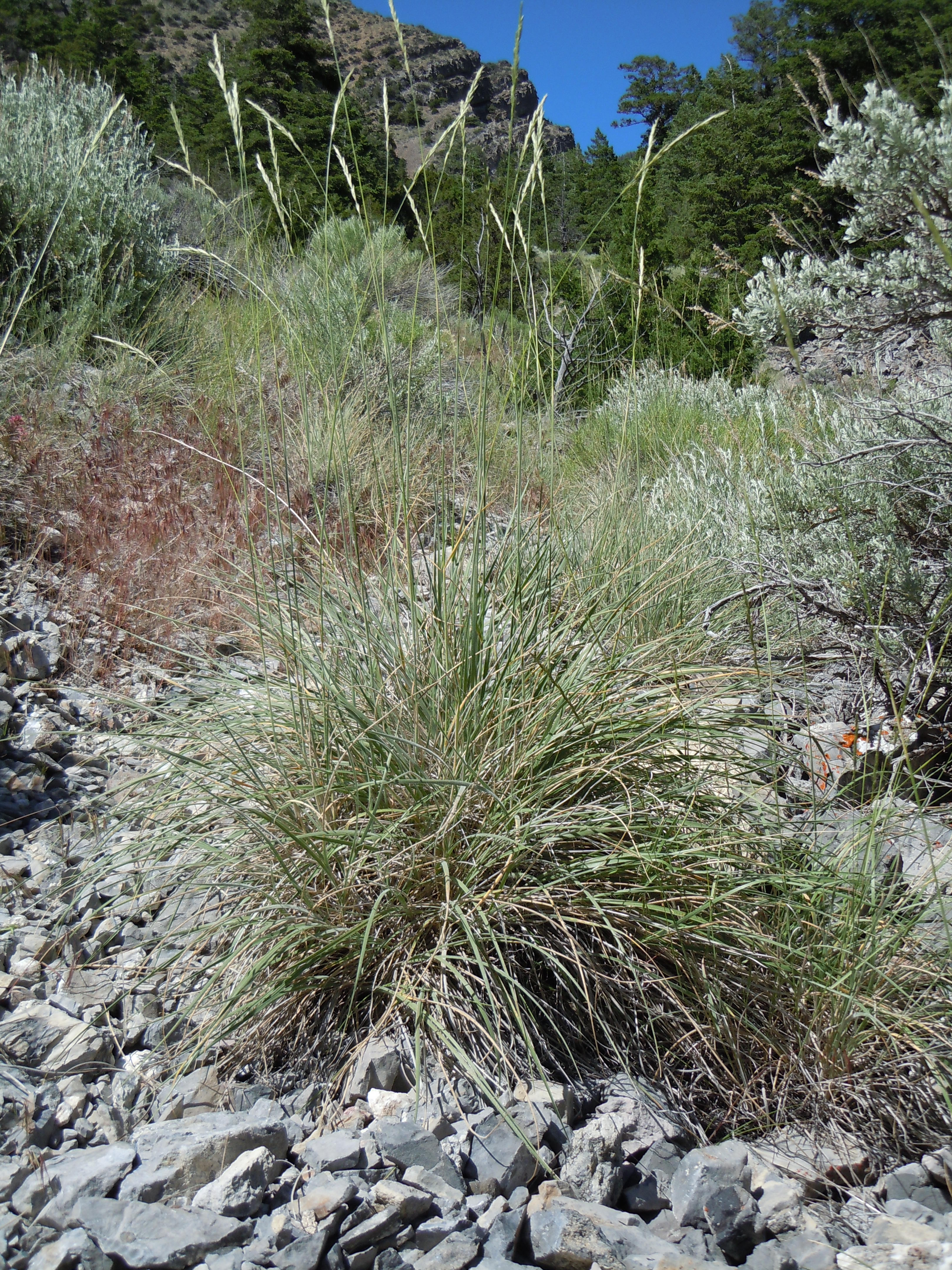 This large bunchgrass with soft-hairy leaves is found on the gravelly more exposed uplands in this area.